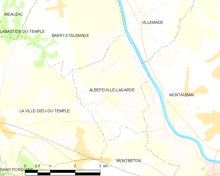 Map of French municipality Albefeuille-Lagarde